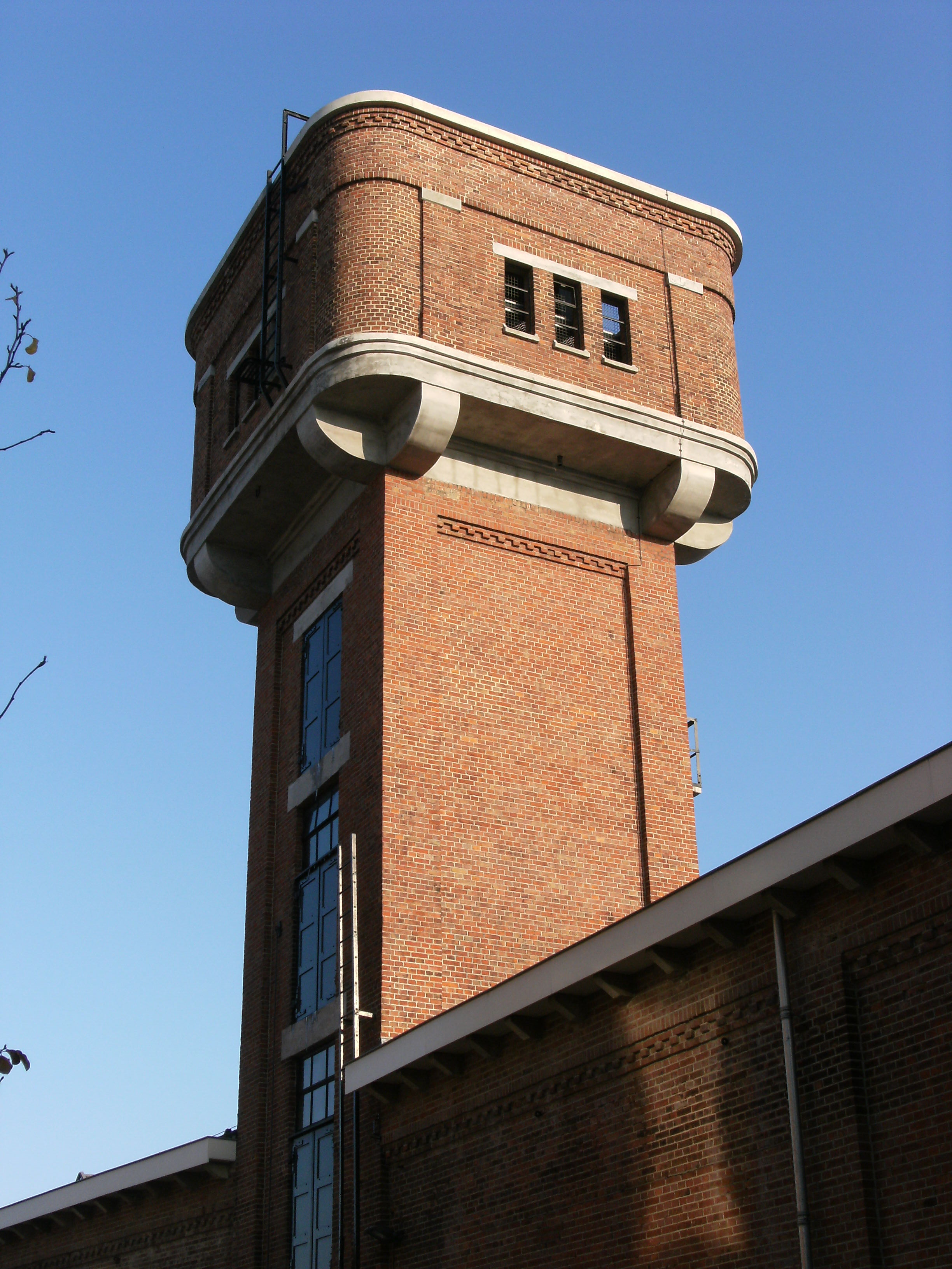 Tower of "Twentse Welle" museum in Roombeek, Enschede